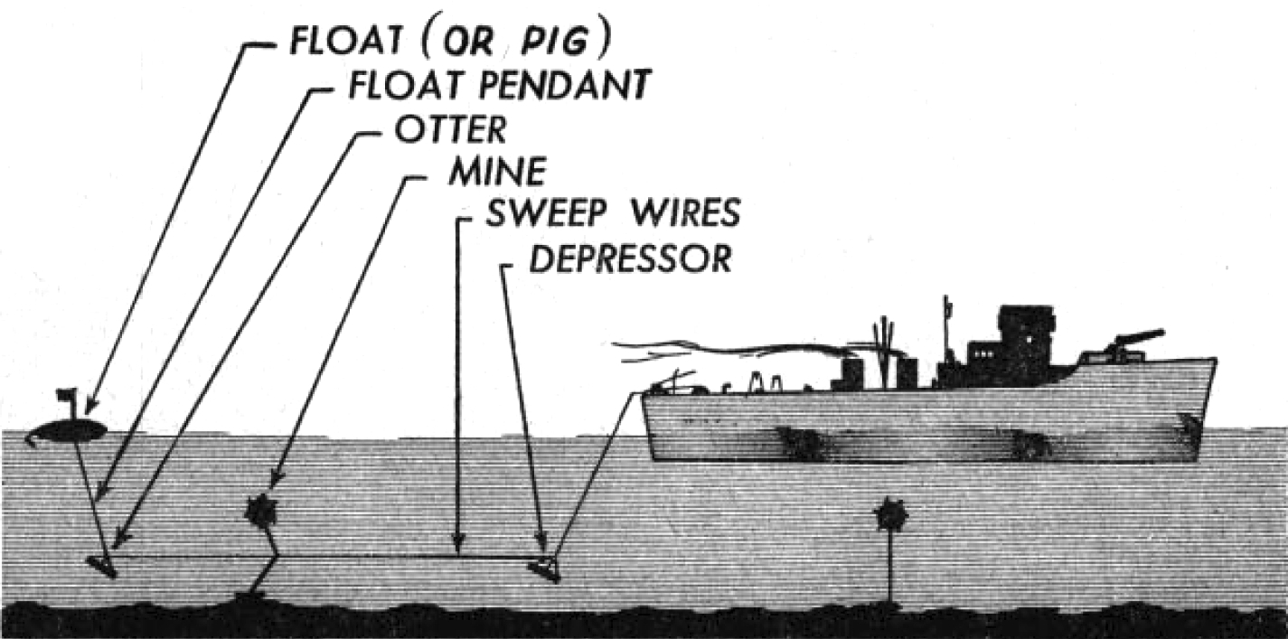 A diagram showing a minsweeper rigged to cut loose moored mines.